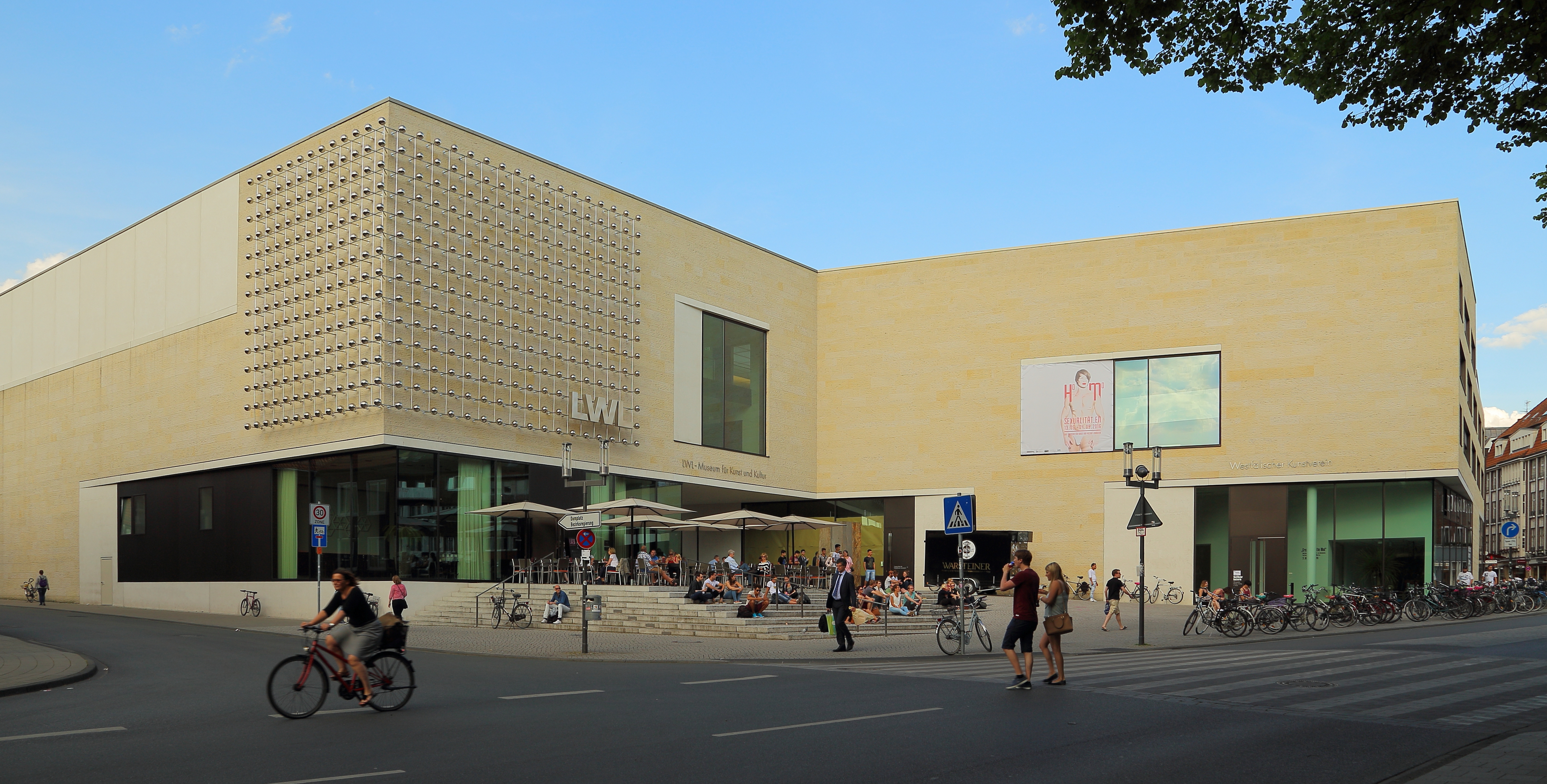 The LWL Museum of Art and Culture (LWL-Museum für Kunst und Kultur) in Münster, North Rhine-Westphalia, Germany.